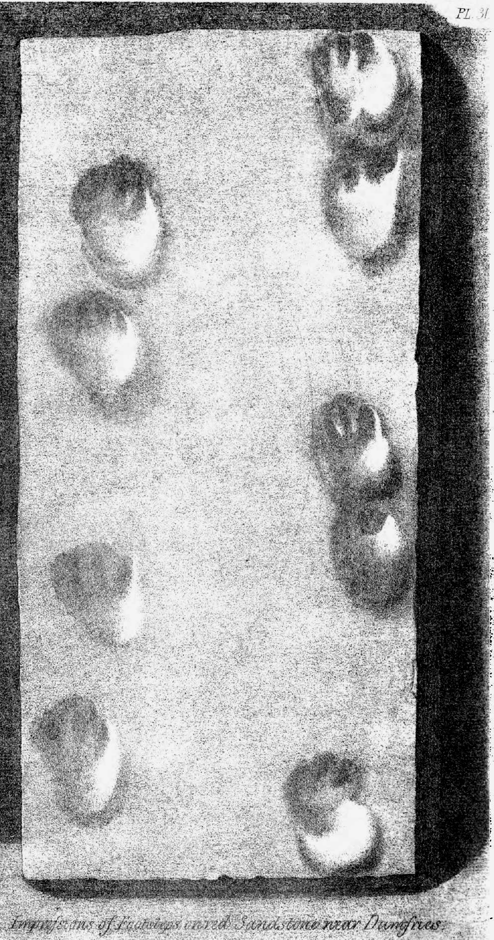 Original description: Fossil footsteps, indicating the tracks of ancient animals, probably Tortoises, on the New Red Sandstone near Dumfries. (From a cast presented by Rev. Dr. Duncan.)